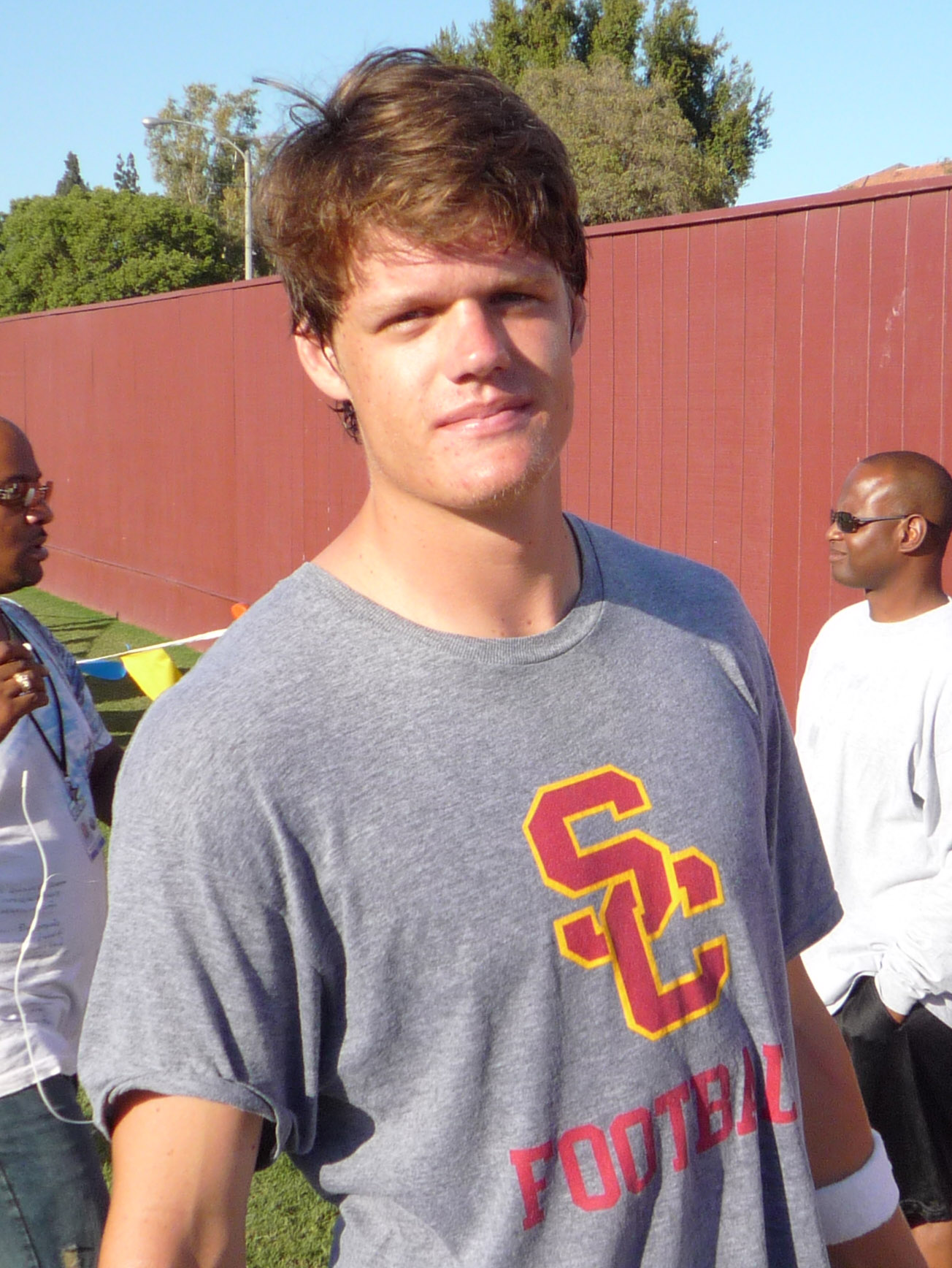 Quarterback Aaron Corp, after a fall practice preceding the 2008 USC Trojans football season.